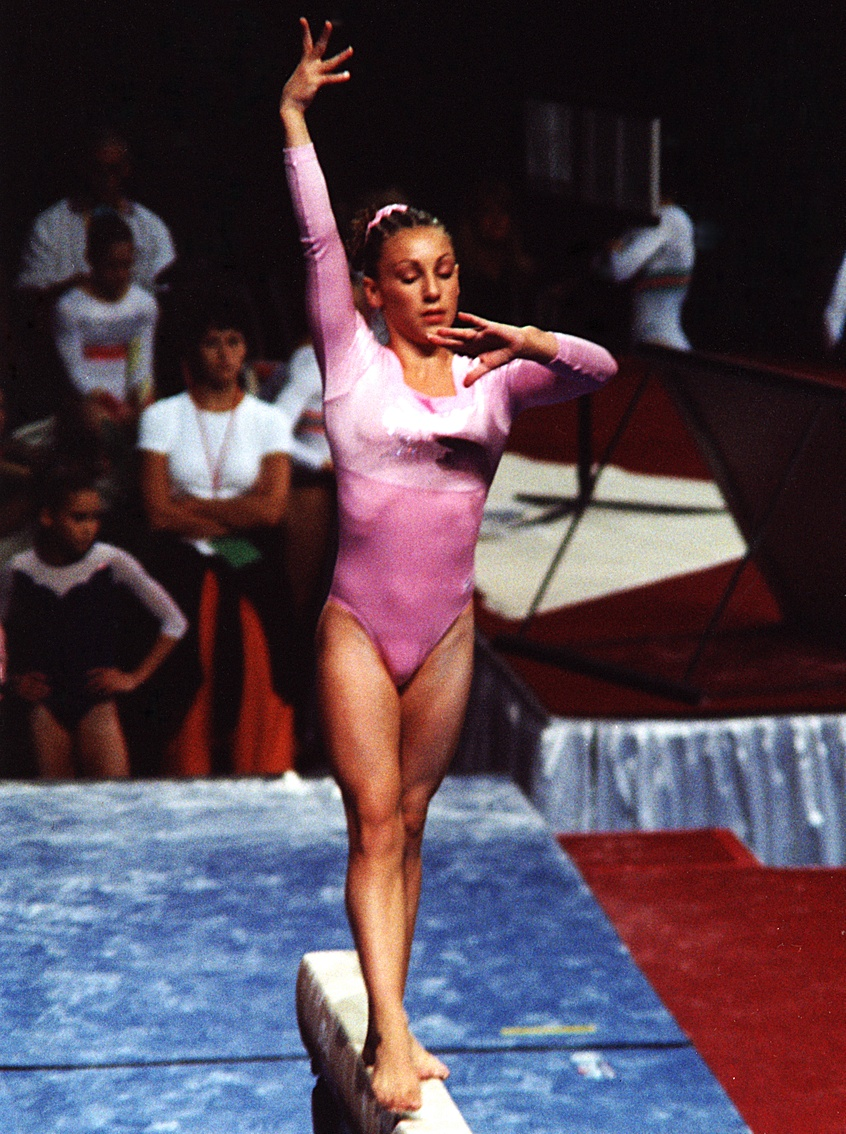 Kristal Uzelac competing on balance beam on her way to a record-setting third straight U.S. Junior National Gymnastics Championship, Philadelphia, PA, August, 2001. Photo © J. Bierbaum